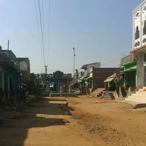 This is Village of ganjam